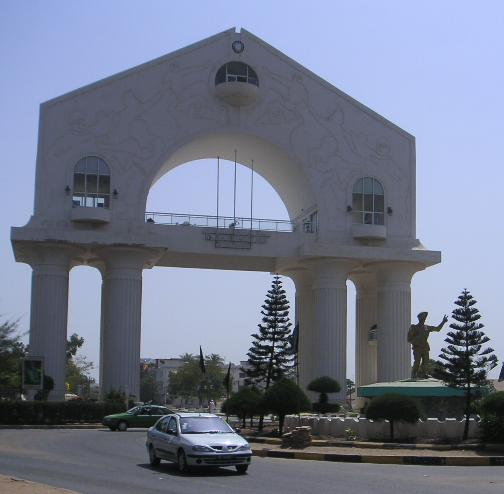 Momument of the 1994 Gambian coup d'état.